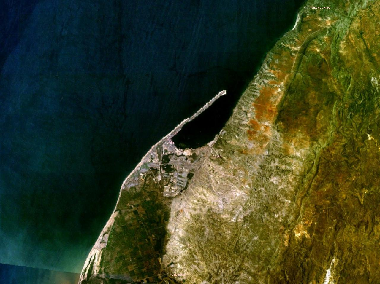 Lobito, Angola